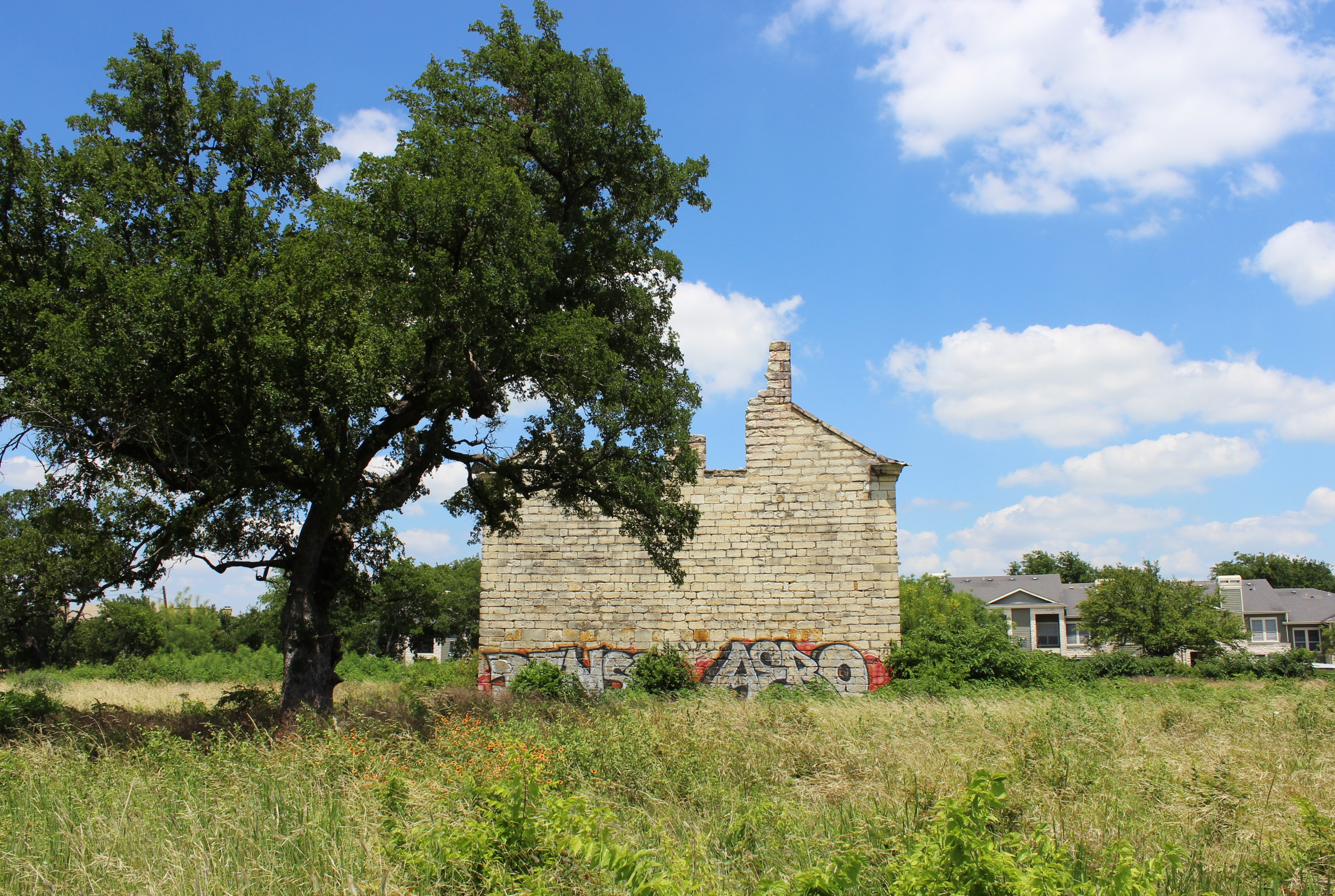 Judge Sebron G. Sneed House, Austin, Texas